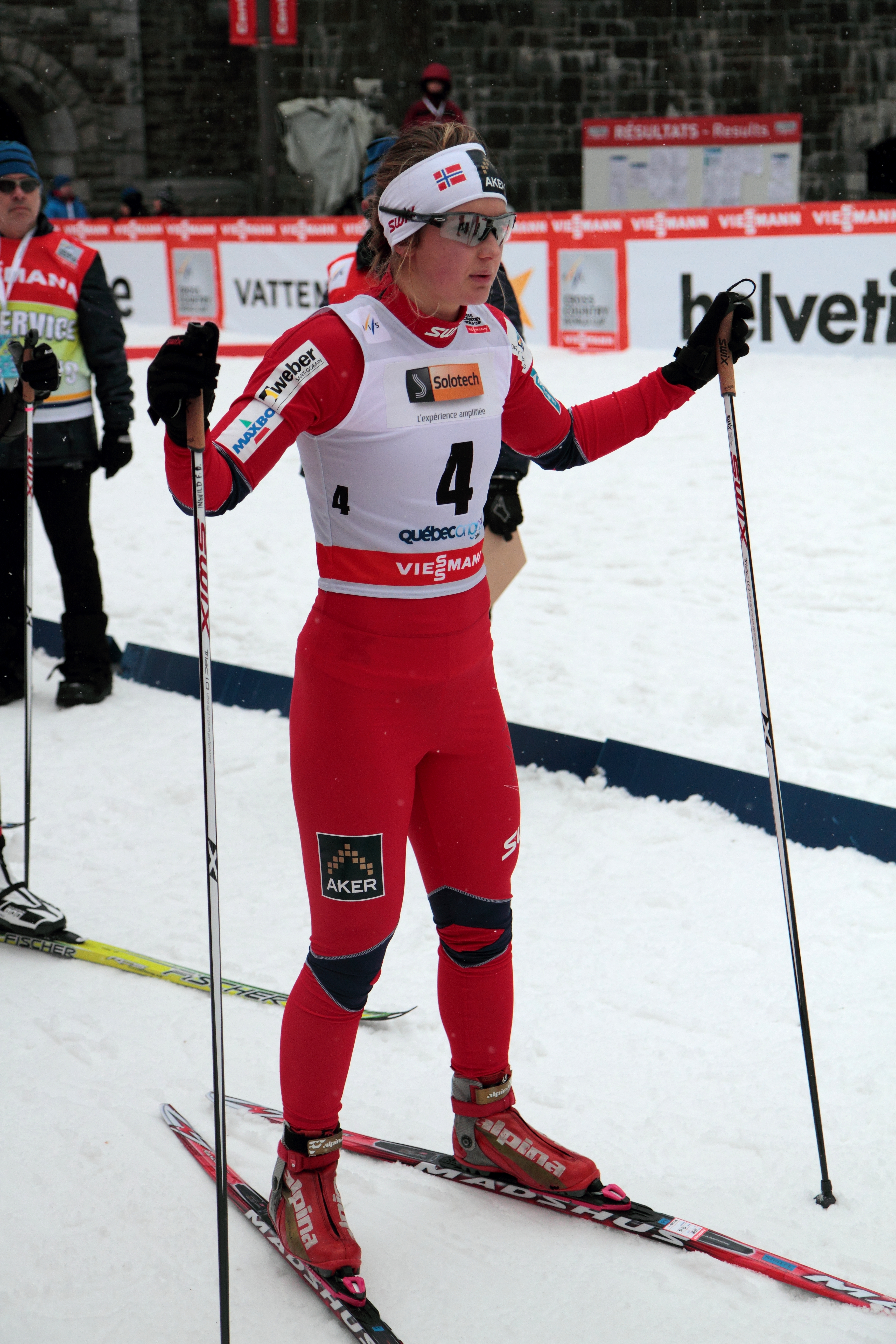 Ingvild Flugstad Oestberg, FIS Cross-Country World Cup 2012, Quebec, Canada.